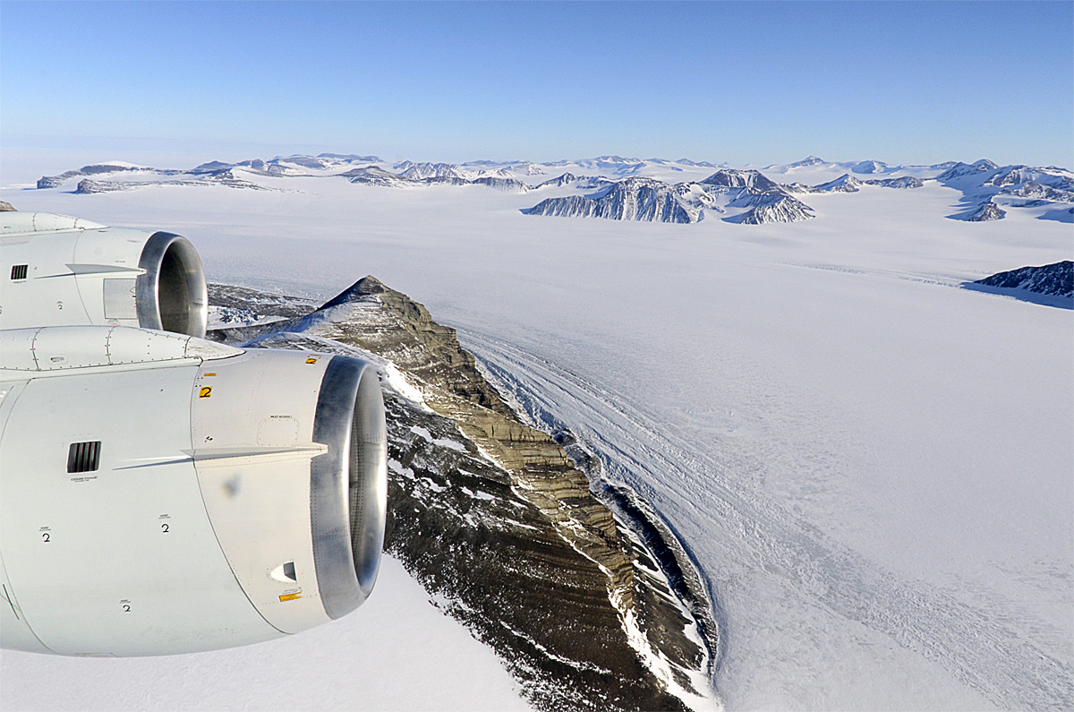 The DC-8 flew over Alexander Island on Mon., Oct. 24, 2011. Alexander Island is one of the largest islands off Antarctica. The George VI ice shelf connects the island to the Antarctic Peninsula; until the 1940s explorers thought it was part of the mainland. Credit: Michael Studinger/NASA